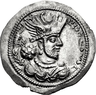 Coin of the Sasanian king Bahram IV (cropped version), Herat mint.